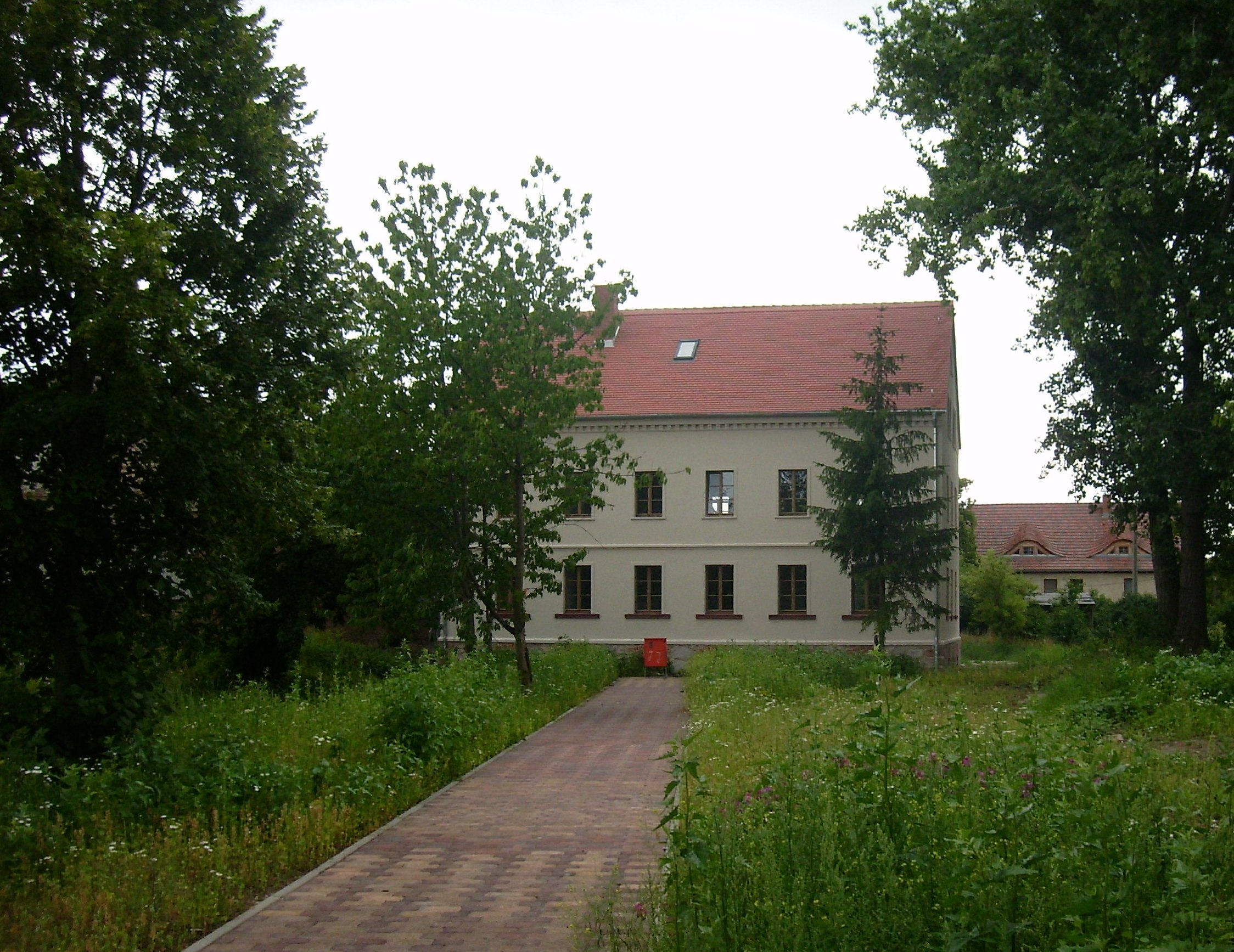 Schönnewitz Manor in Reideburg (Halle/Saale, Saxony-Anhalt), birthplace of Hans-Dietrich Genscher, now educational and meeting centre German Unity